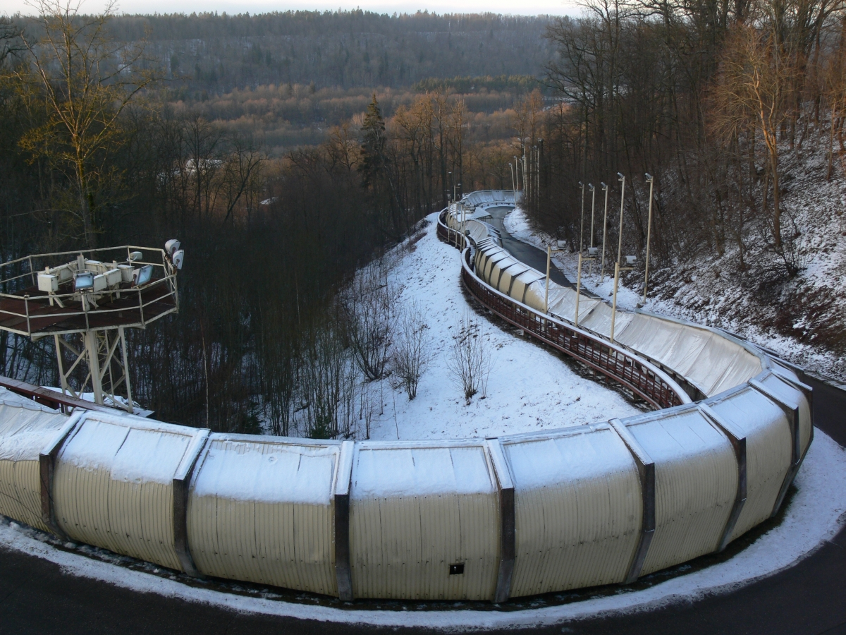 Curves of bobsleigh track in Sigulda, Latvia. Read more on Latvian blog with information about Latvia